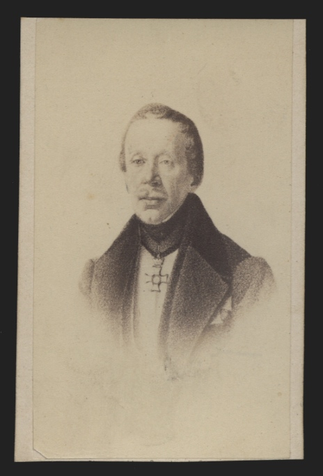 CDV of an older drawing of Friedrich Wilhelm Theodor (von) Wundt (1778-1850), major general of Württemberg.